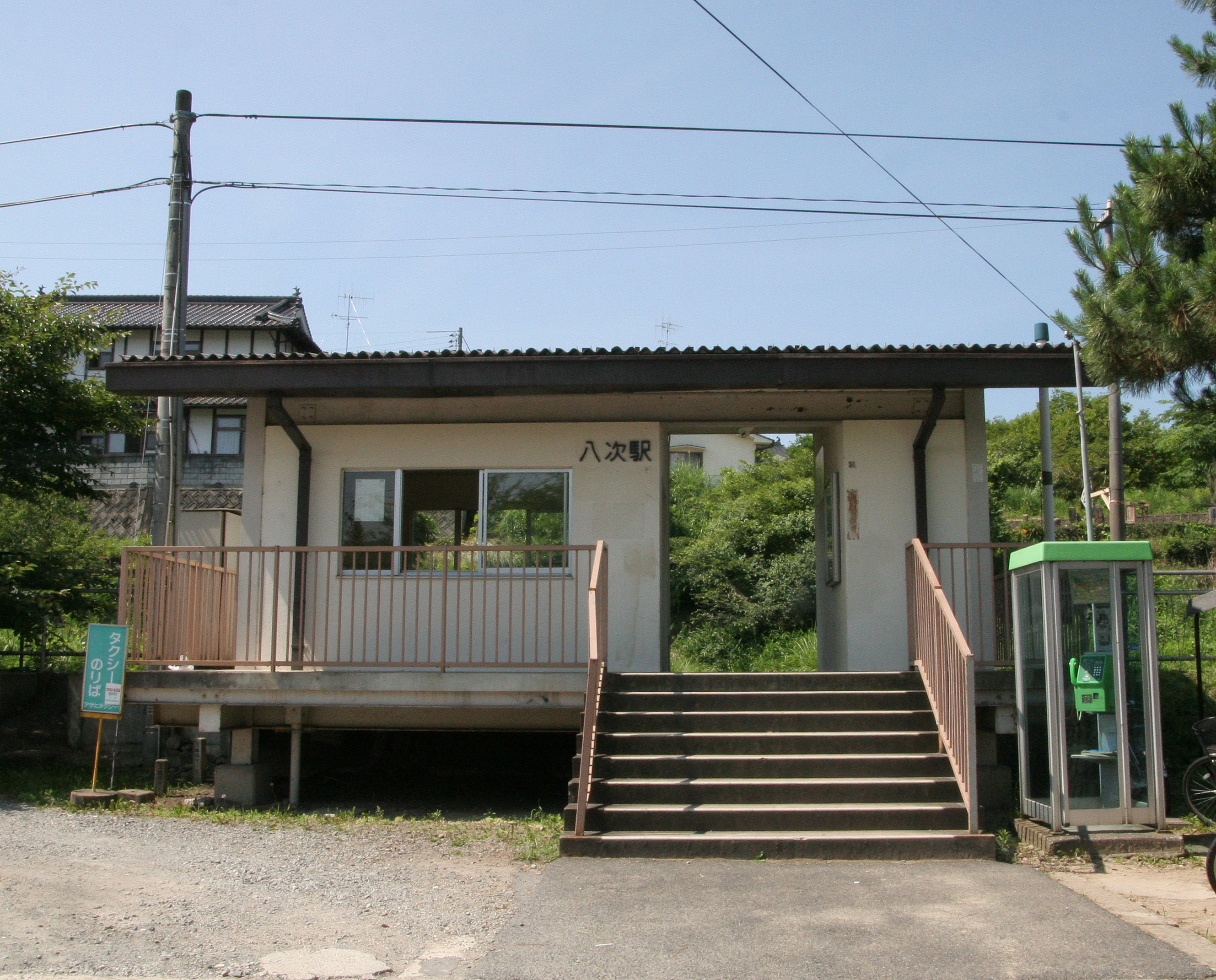 West Japan Railway Geibi Line Yatsugi Station